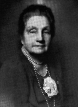 Photograph of Winifred Edgerton Merrill